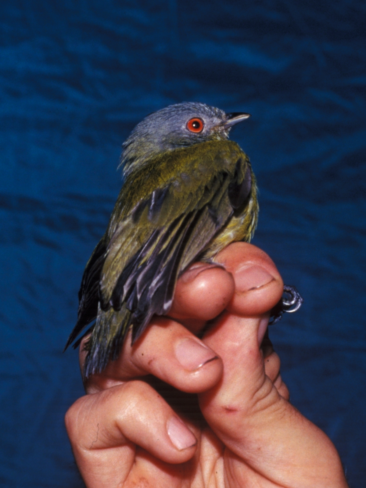 White-crowned Manakin (Dixiphia pipra), female from Ecuador